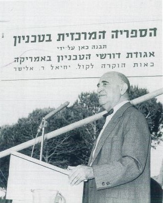 Colonel Jehiel R. Elyachar, a leader of the American Technion Society, addresses the audience at the cornerstone ceremony for the Elyachar Library (June 1962)